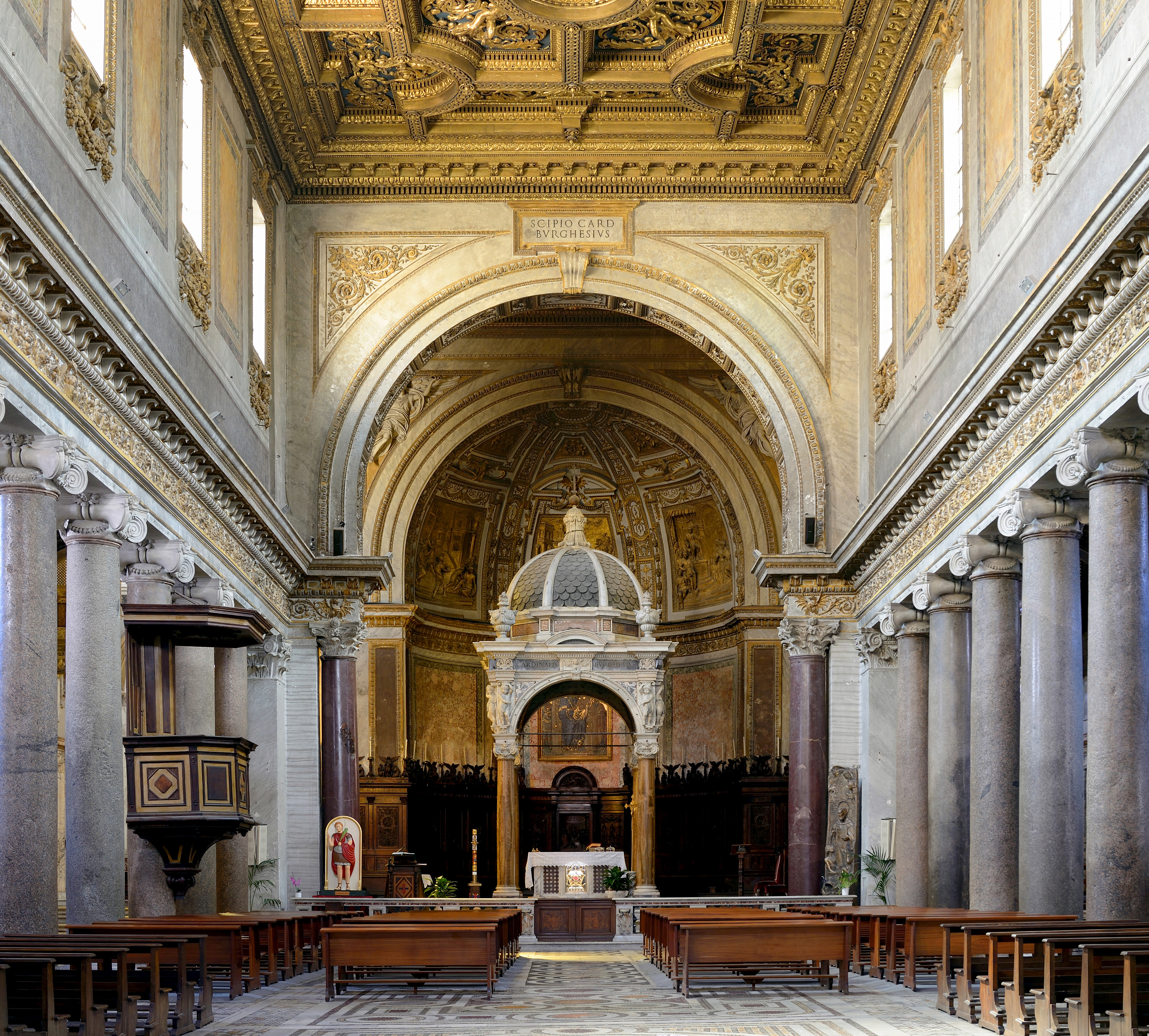 San Crisogono (Rome) - Interior